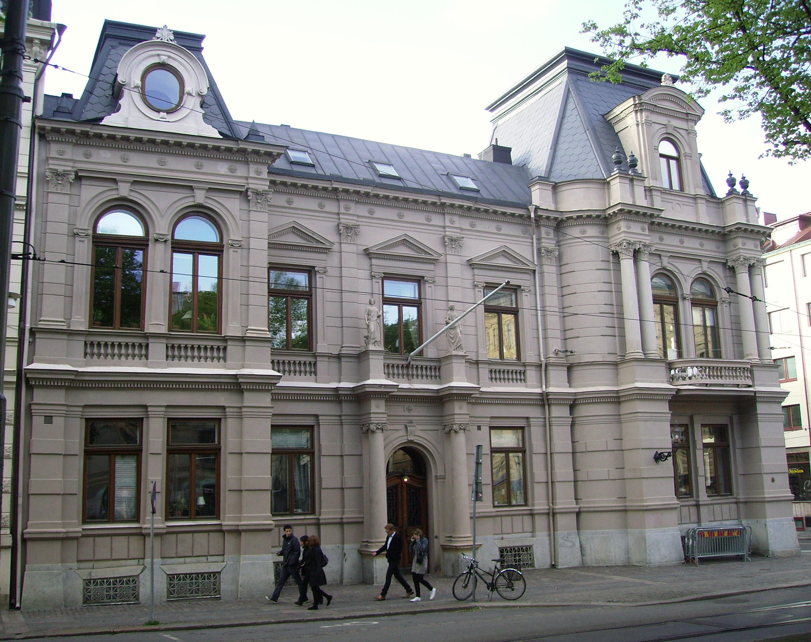 Picture of Heymanska huset (Gabriel Heyman's house) in Göteborg